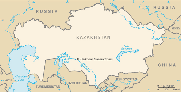 Locator map of the Baikonur Cosmodrome and Baikonur city — in southern Kazakhstan.